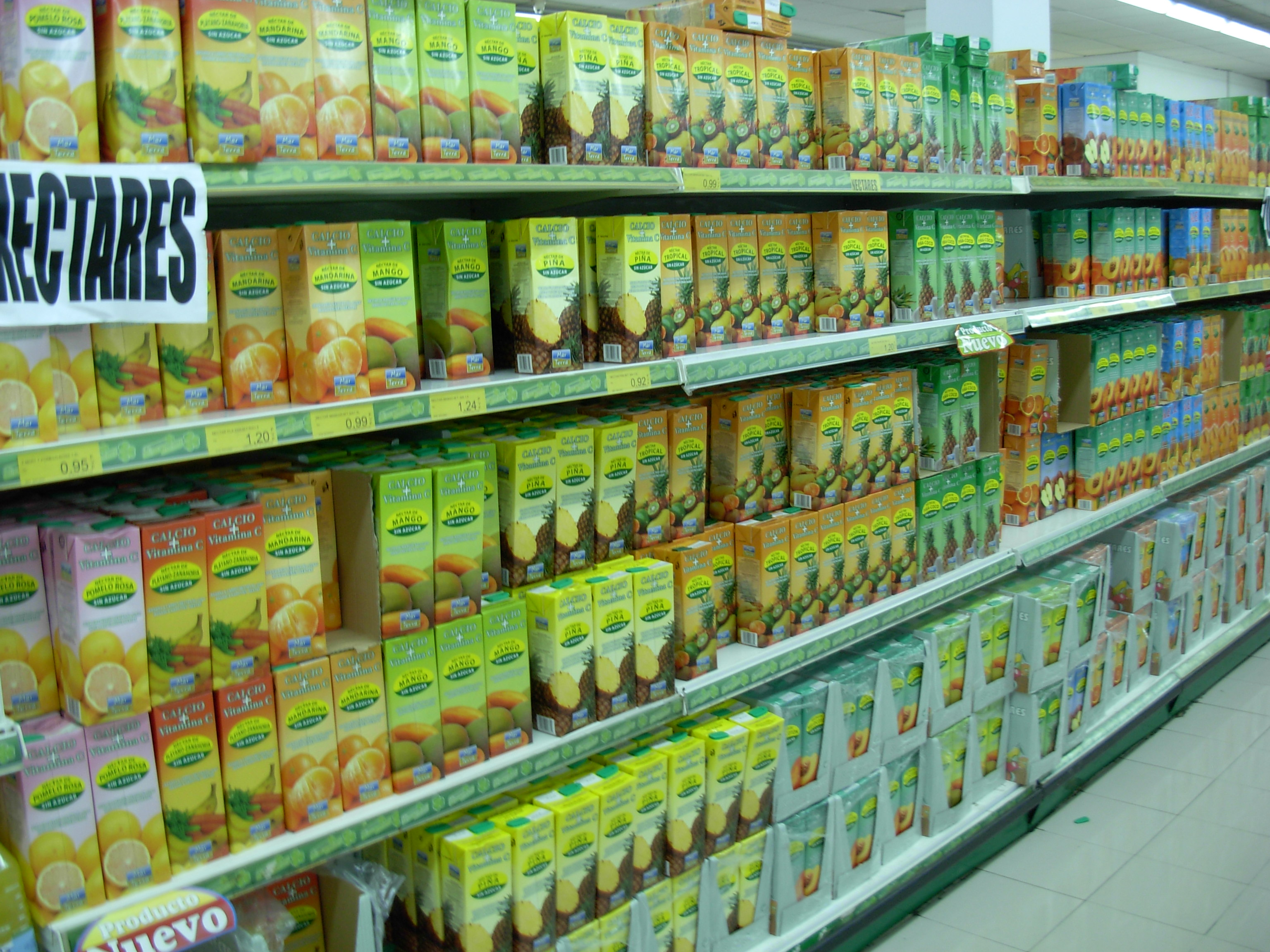 Selection of fruit juices, Spain, Tenerife.